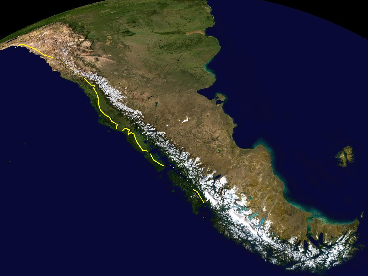 Chilean Coast Range—Cordillera de la Costa — a principal mountain range of Chile. It is based on File:Andes_70.30345W_42.99203S.jpg, a NASA image on the public domain